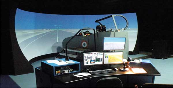 Hawk Mk 132 Simulator